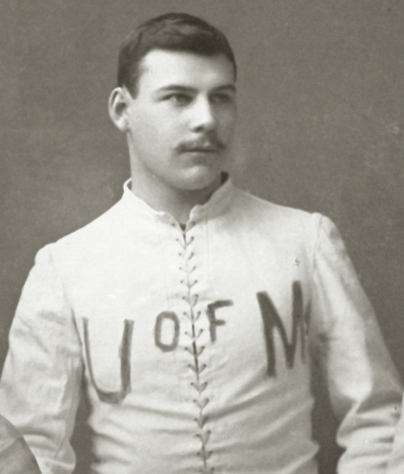 Photograph of the William Harless